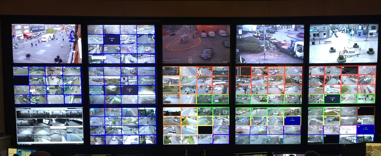 A monitor wall with fifteen 42-inch monitors for 176 on-street cameras in a public space CCTV control room